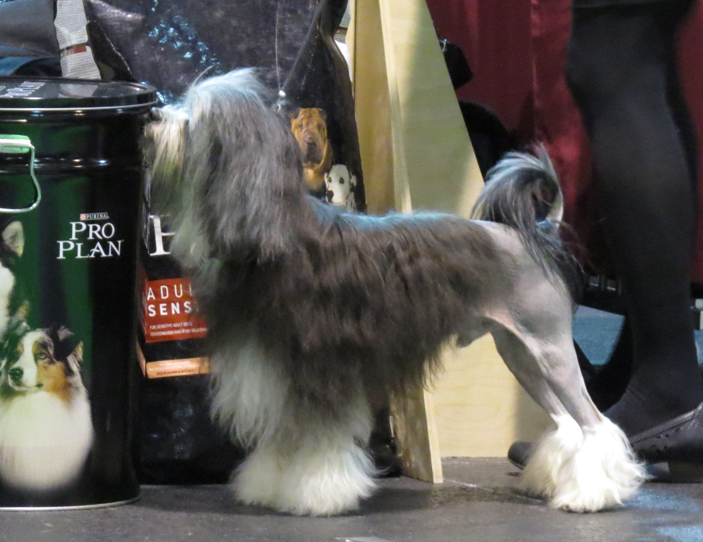 Riga, Baltic Winner 2013, 9-10 Nov